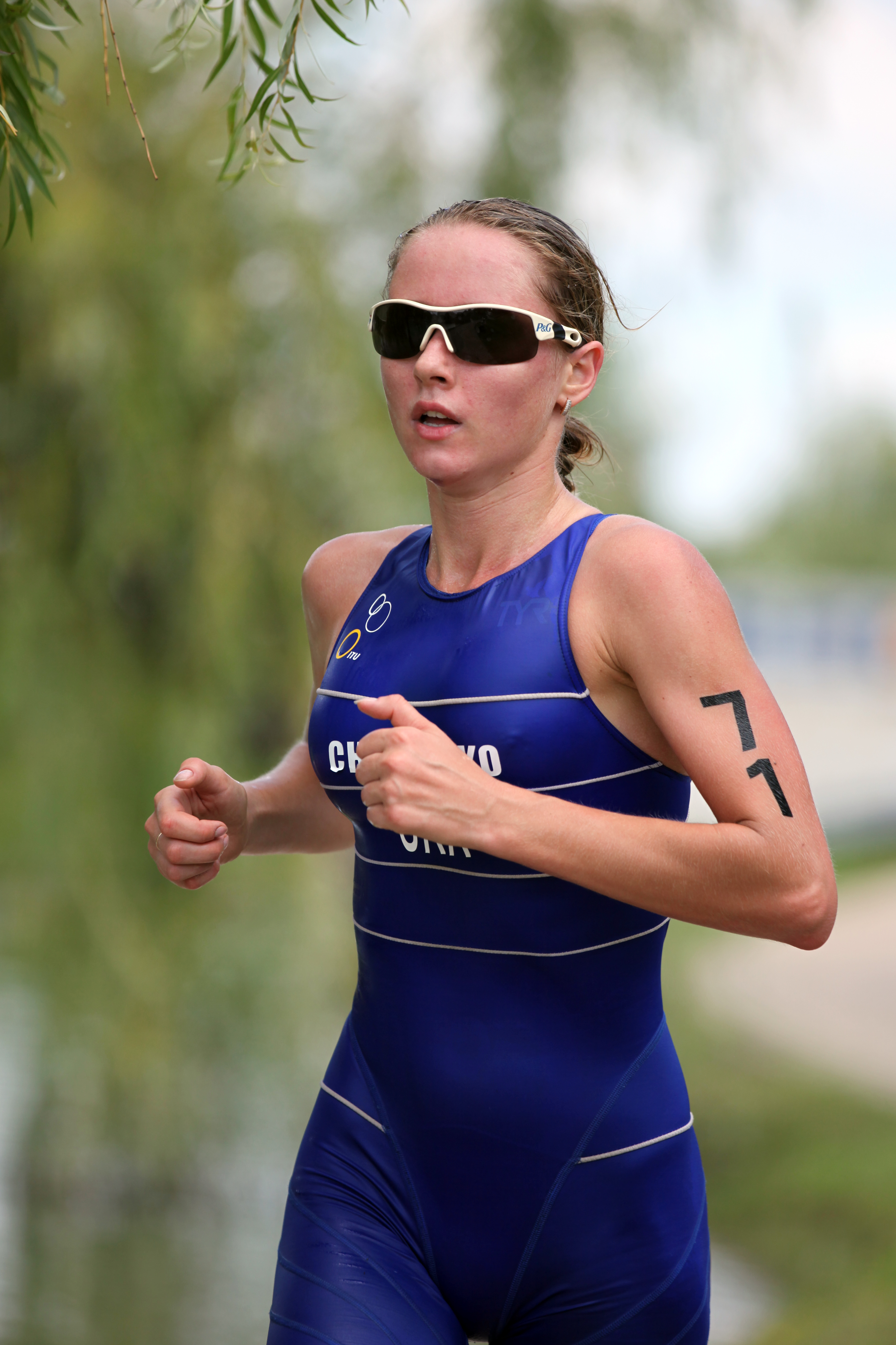 Anastasiya Chernenko (Анастасія Михайлівна Черненко) at the World Cup triathlon in Tiszaújváros, 2011.